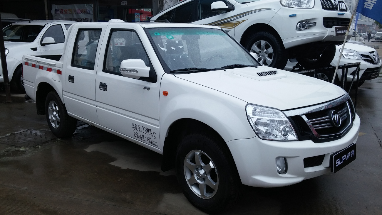 Foton SUP photographed in Wuhan, Hubei province, China.